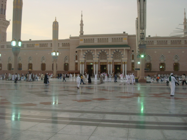 Al-Masjed Al-Nabawi